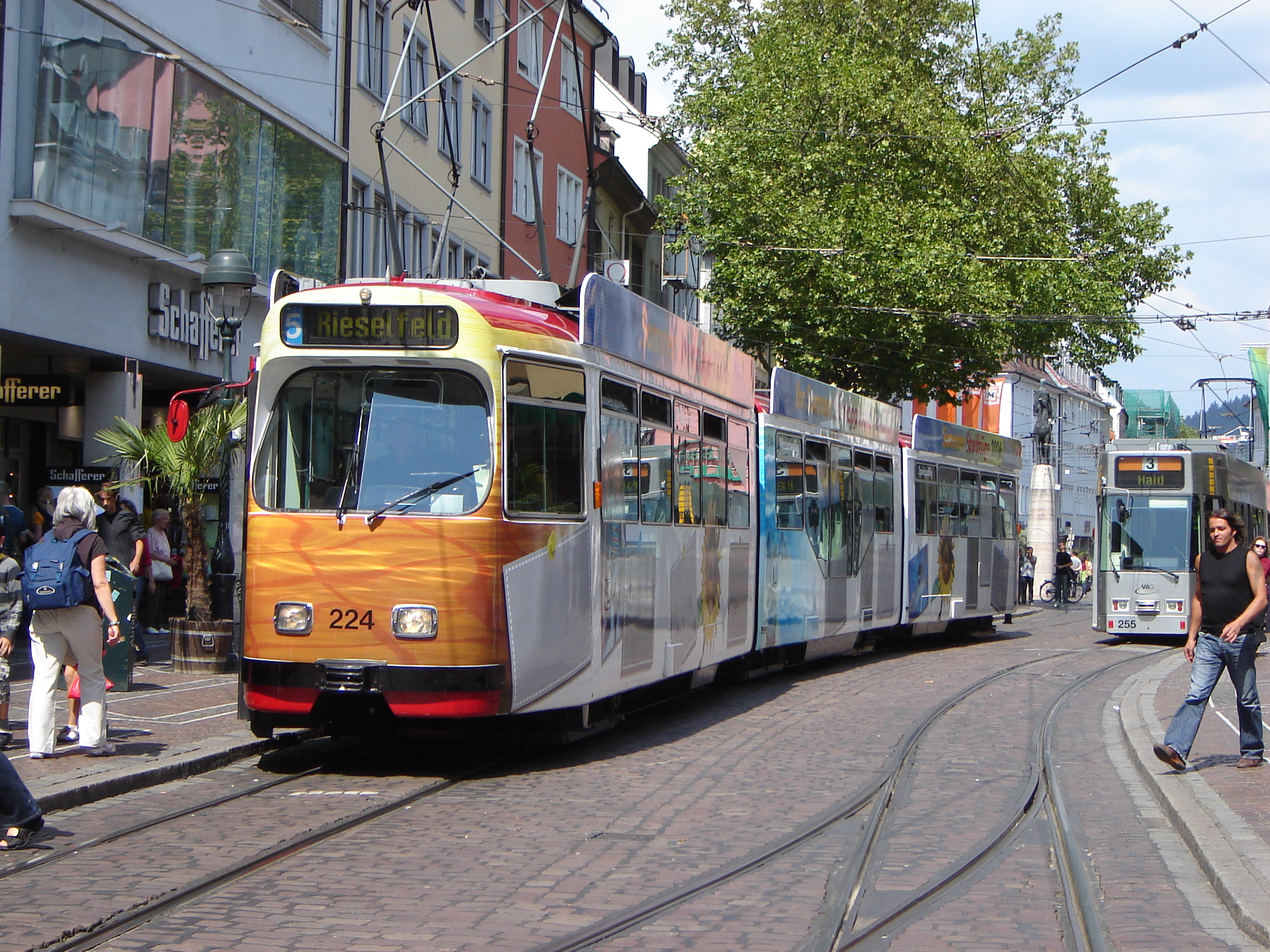 Tram typ GT8